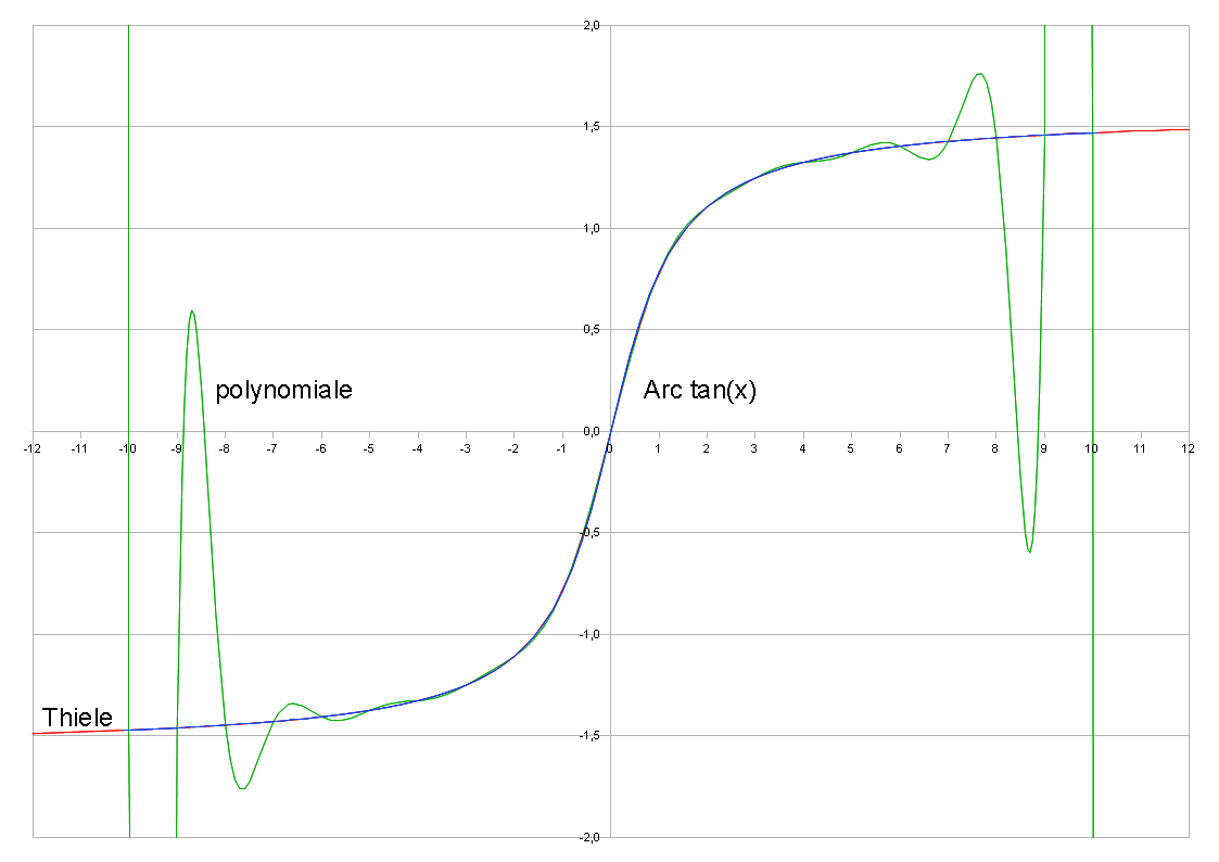 comparison of polynomial interpolation with rationnal interpolation using Thiele algorithm of Arc-tangente function, between -10 and +10, using 21 equally spaced interpolation points